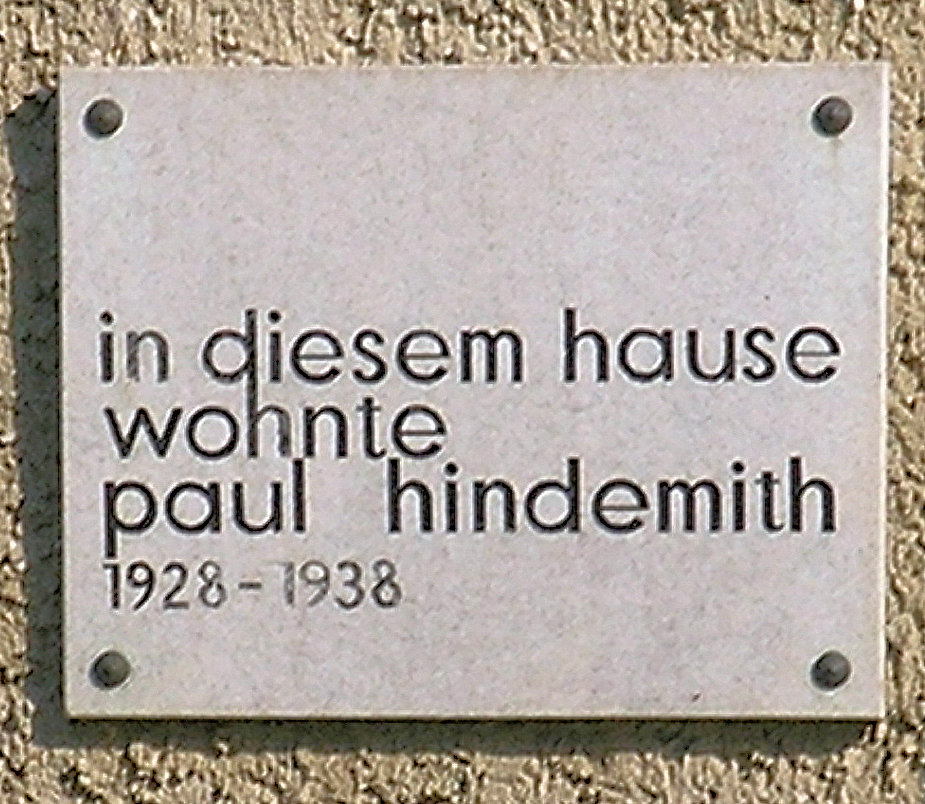 Memorial plaque, Paul Hindemith, Brixplatz 2, Berlin-Westend, Germany Koordinate:52°31′10.6″N 13°15′19.8″E / 52.519611°N 13.2555°E